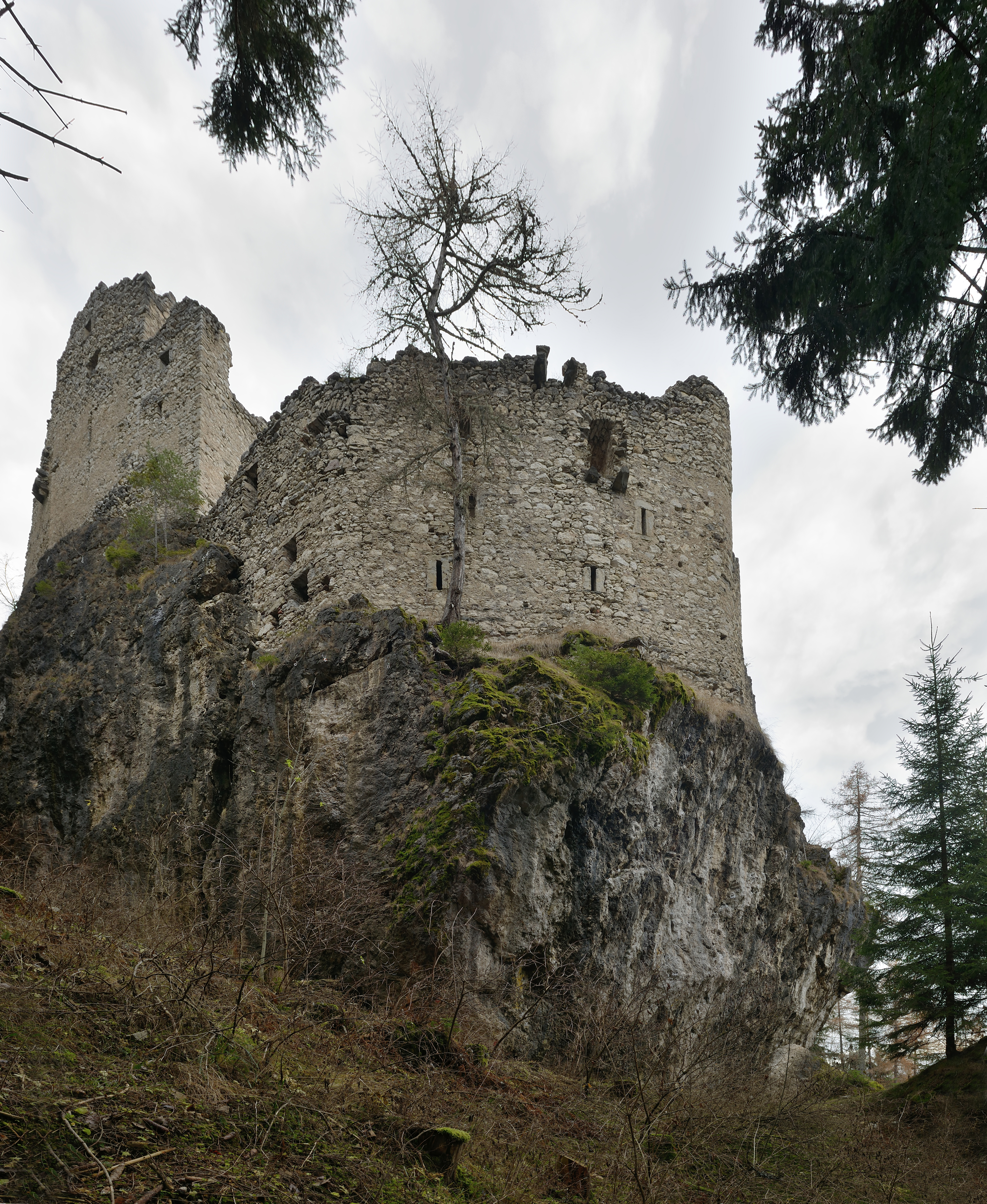 Castle ruin Hauenstein in Seis Kastelruth